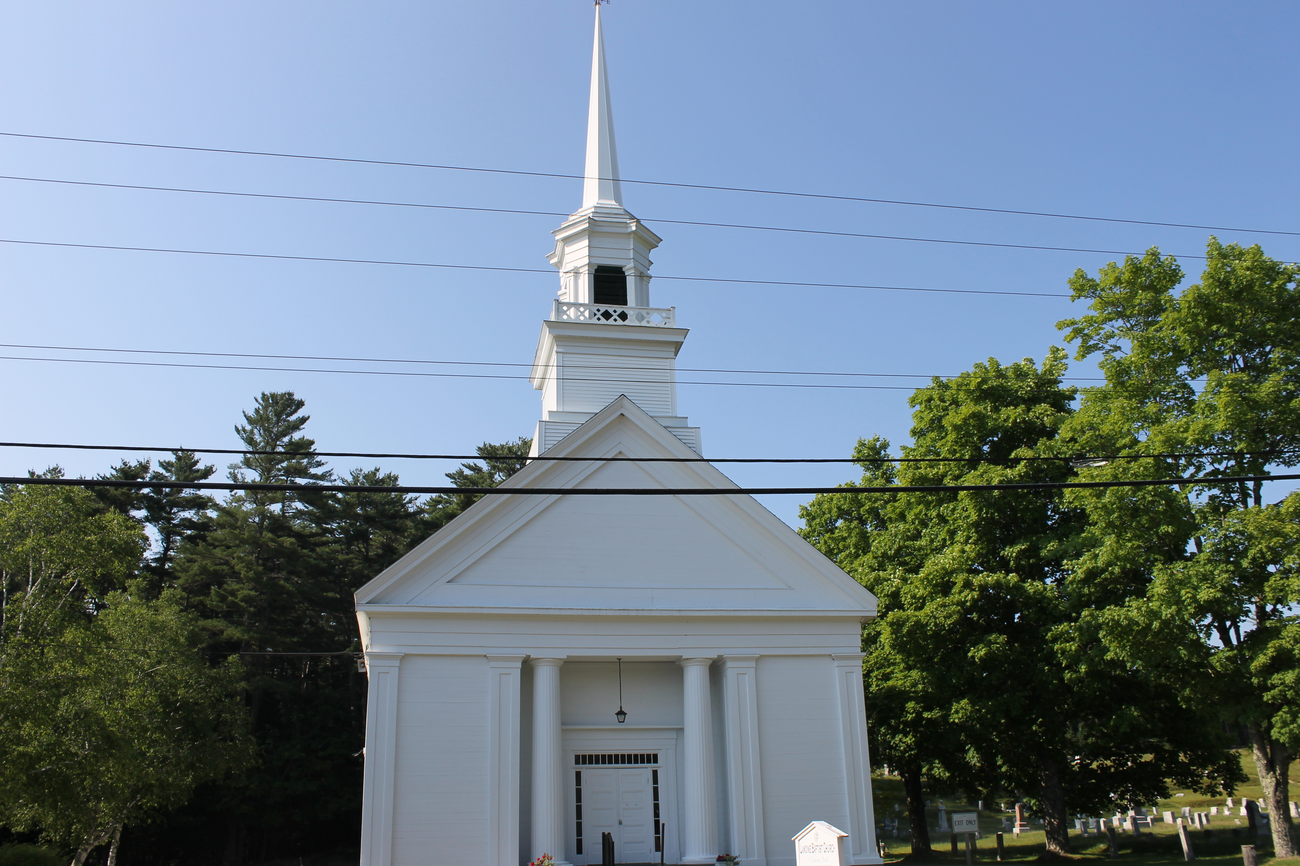 I took photo of Lamoine Baptist Church in Lamoine, ME, with a Canon camera.